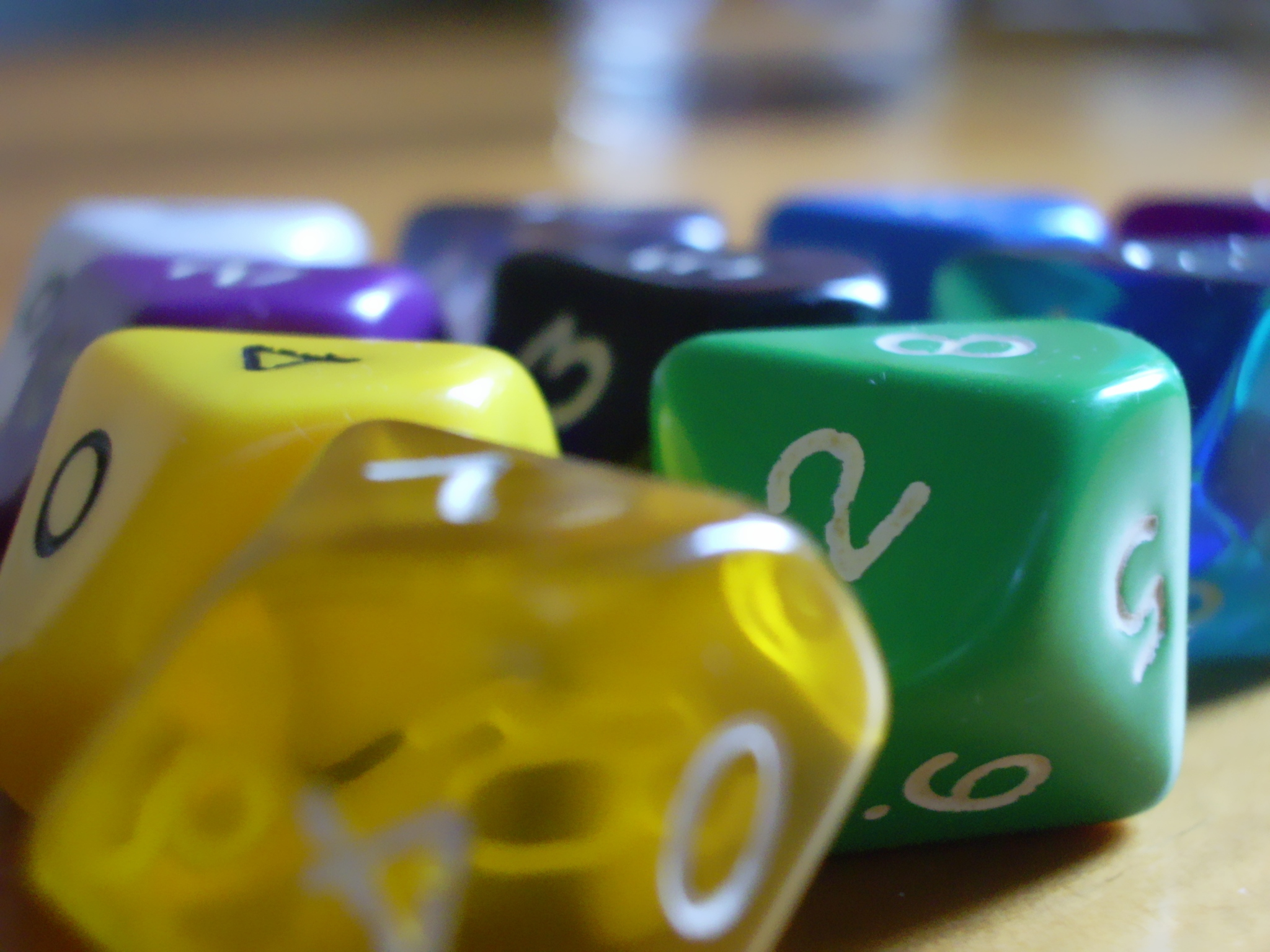 A photo of ten different ten-sided dice, showing ten different numbers (most out of focus) on the face-up side.